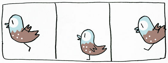 Tiny birds